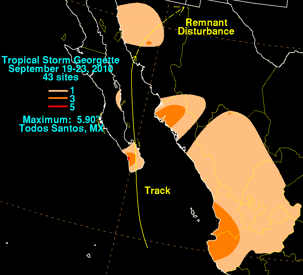 Rainfall produced by Tropical Storm Georgette during September 2010.